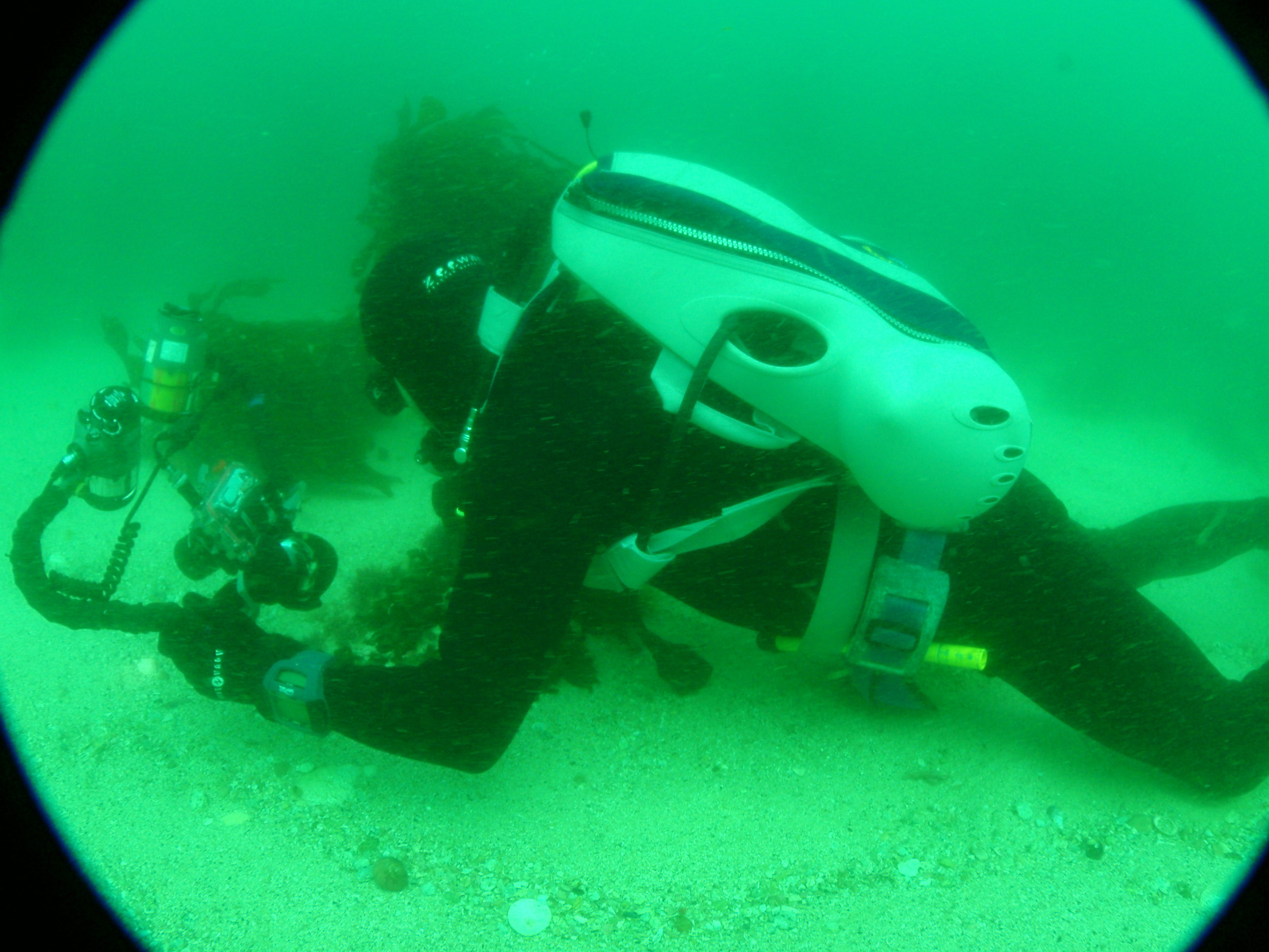 Recreational scuba set comprising harness with integrated carry bag, containing cylinder, buoyancy compensator and regulator